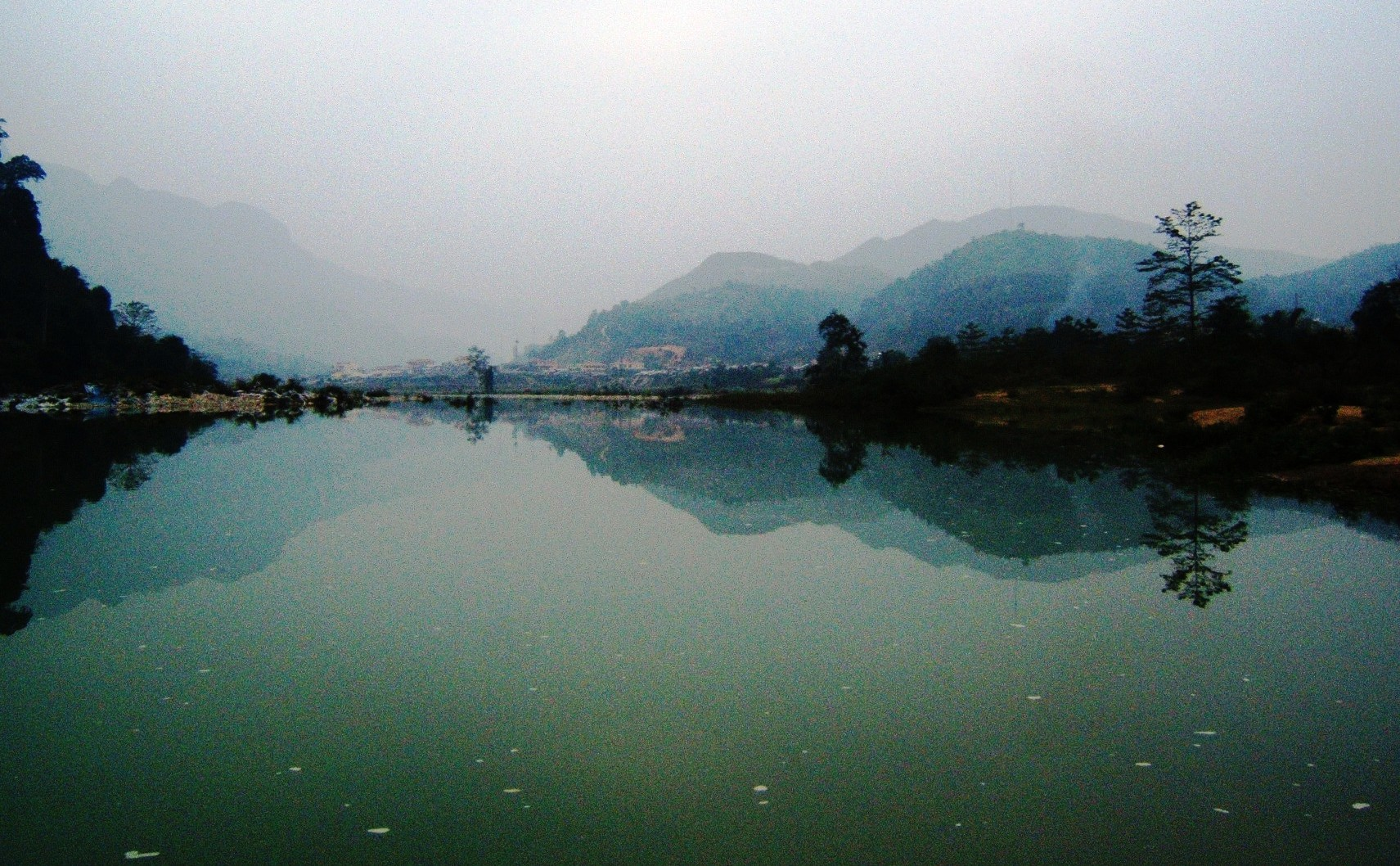 Gam river in Yen Phu commune, Bac Me district, when Tuyen Quang hydropower plant accumulating water, 2007.